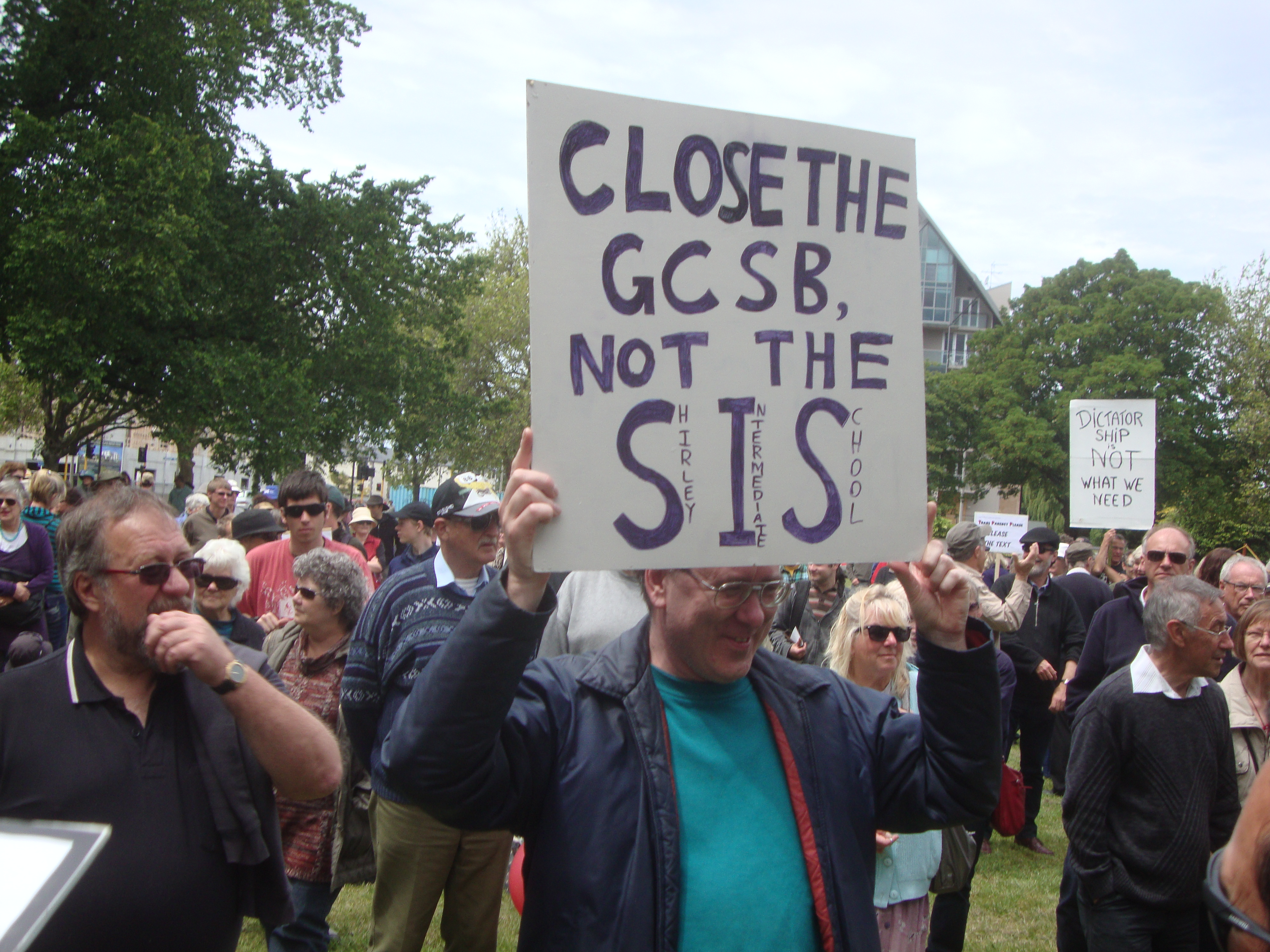 Protest against loss of democracy in Christchurch on 1 December 2012.